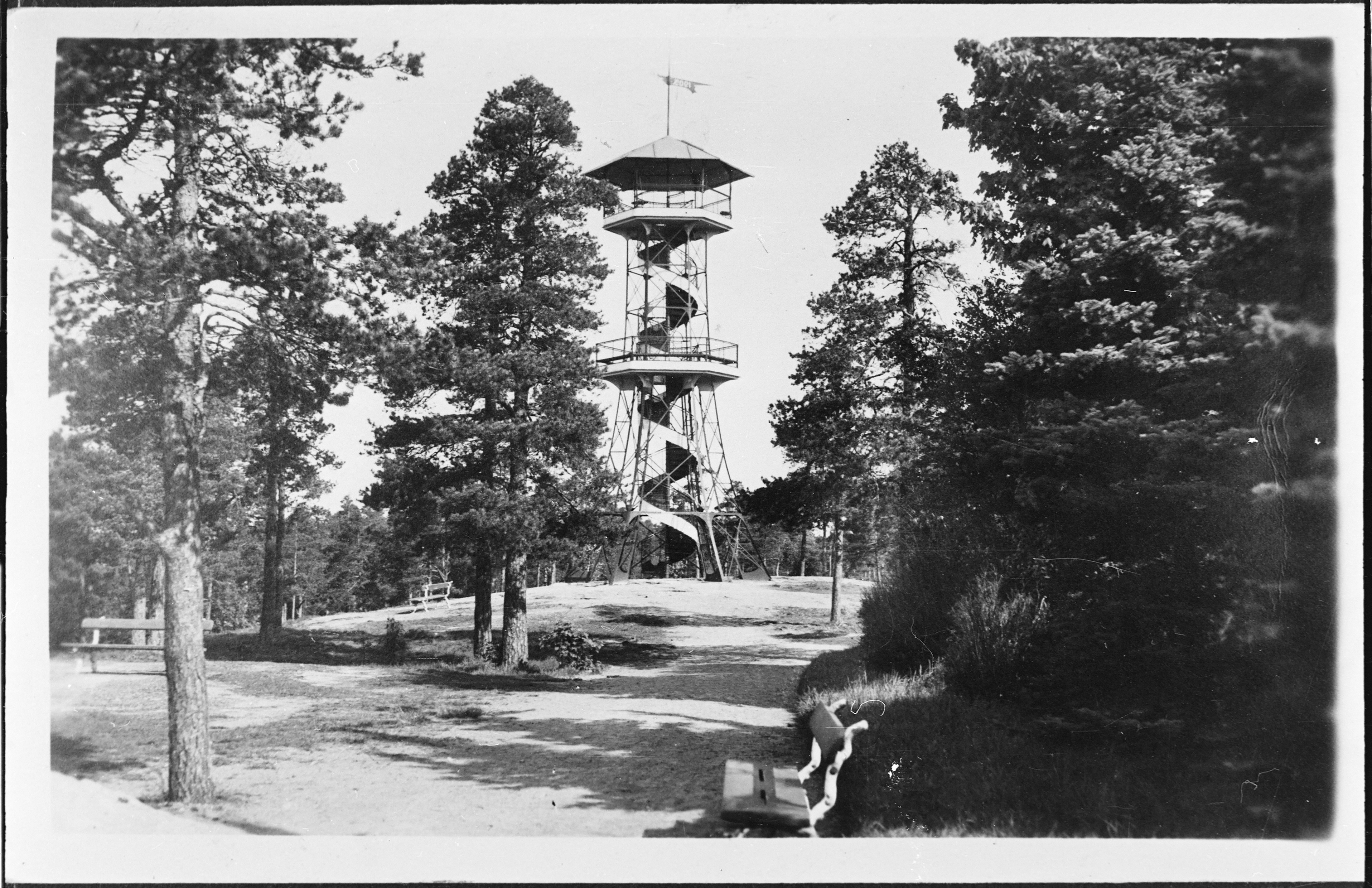 Observation tower on the Papula Hill, Vyborg.